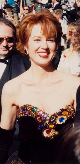 Lee Purcell on the red carpet at the Emmys 9/11/94